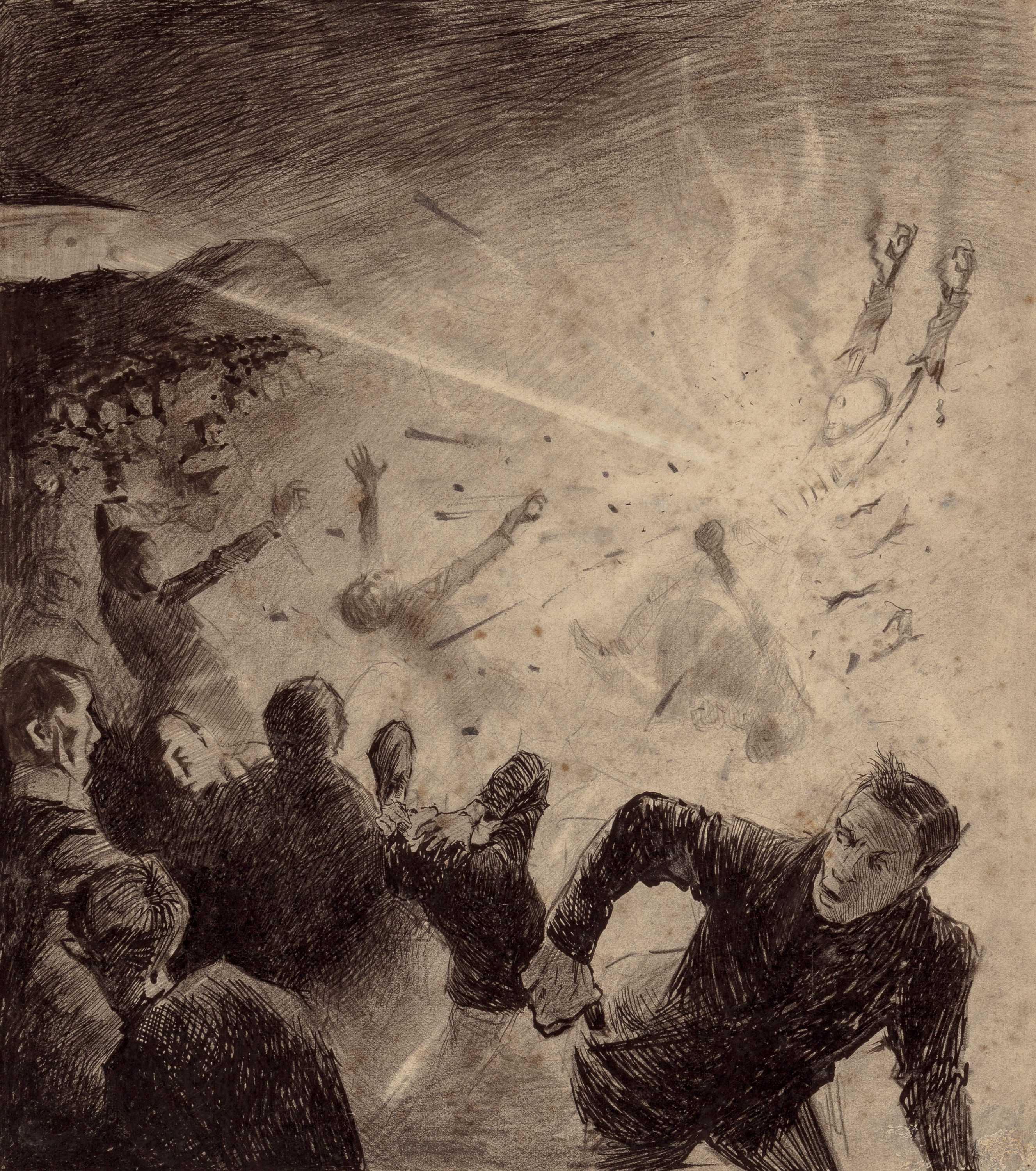 Illustration by Henrique Alvim Corrêa, from the 1906 Belgium (French language) edition of H.G. Wells' "The War of the Worlds", 1906. A scan from the orginal graphic. Orginal caption / oryginalny opis